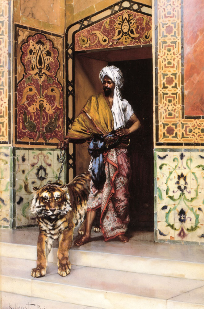 The Pashas Favourite Tiger